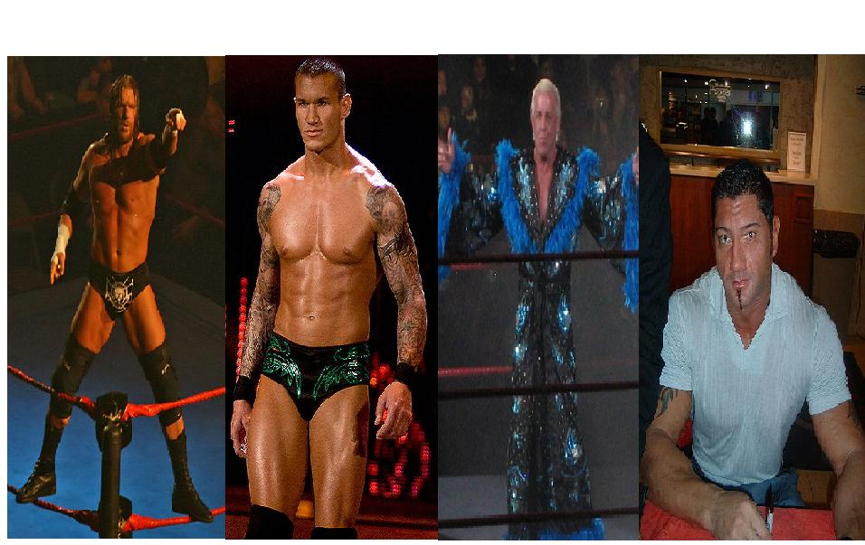 Assembly made with the members of Evolution